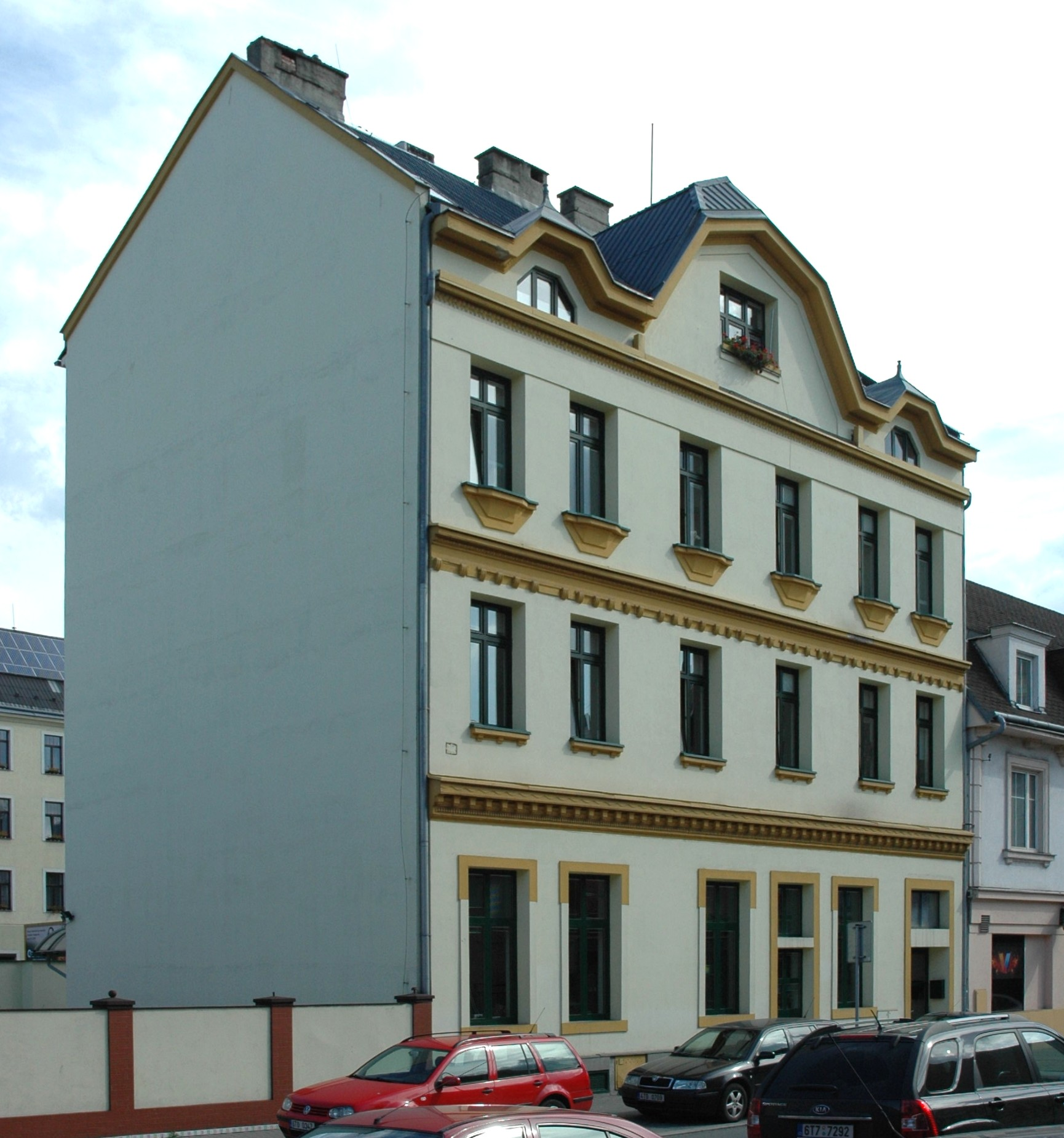 Seat of NH - TRANS company, Poděbradova street, Ostrava